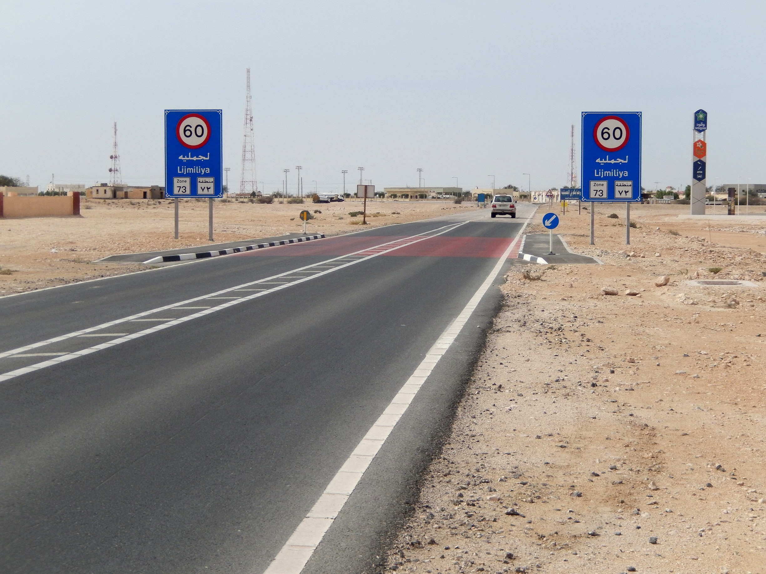 Entry into Al Jumailiyah, approaching from the southwest (municipality of Al Rayyan, Qatar). [It is unclear why the signs say "Lijmiliya", as this village is consistently known on maps as Al Jumailiyah, and geographical websites with millions of names (such as , and ) do not recognise "Lijmiliya".]